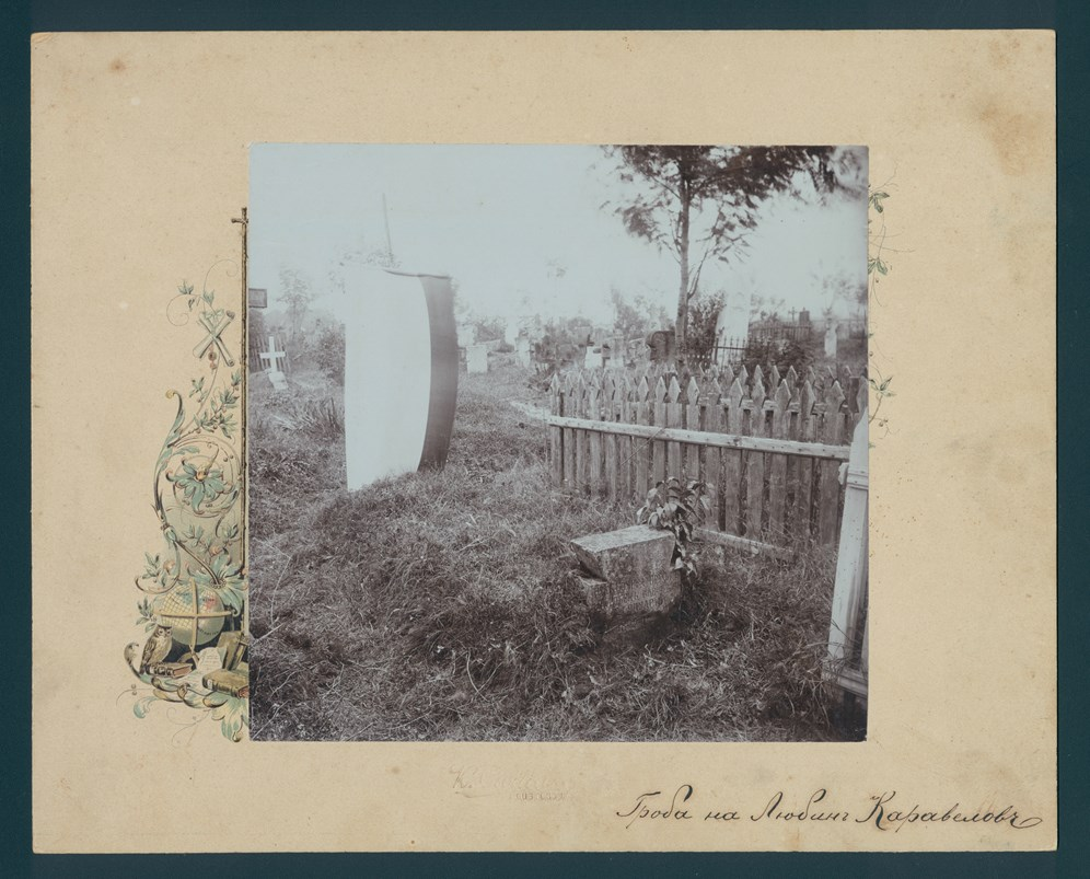 Lyuben Karavelov grave in Rousse, Bulgaria.